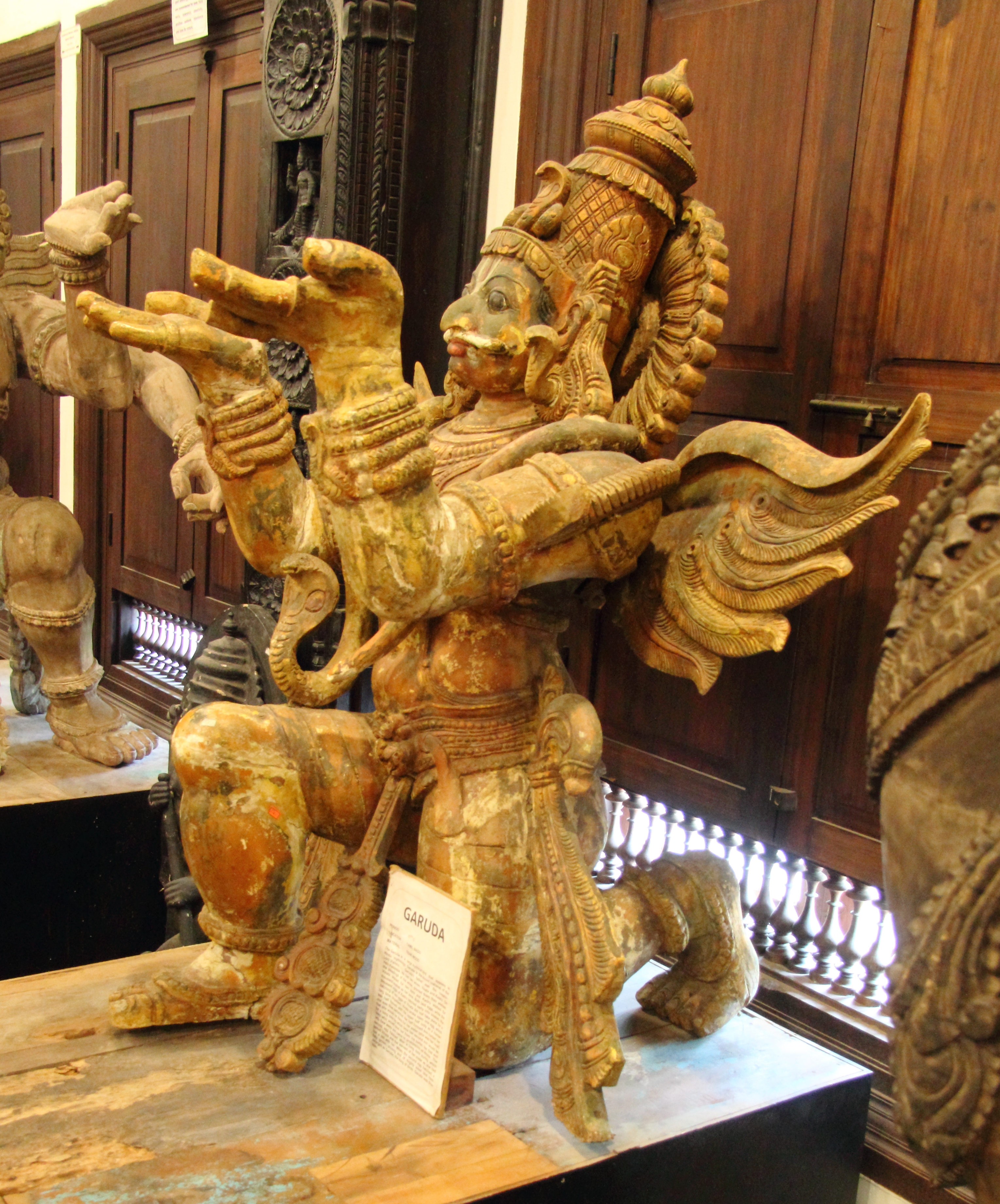 Kochi, Kerala Folklore Museum, wooden statue of the mythical Garuda bird